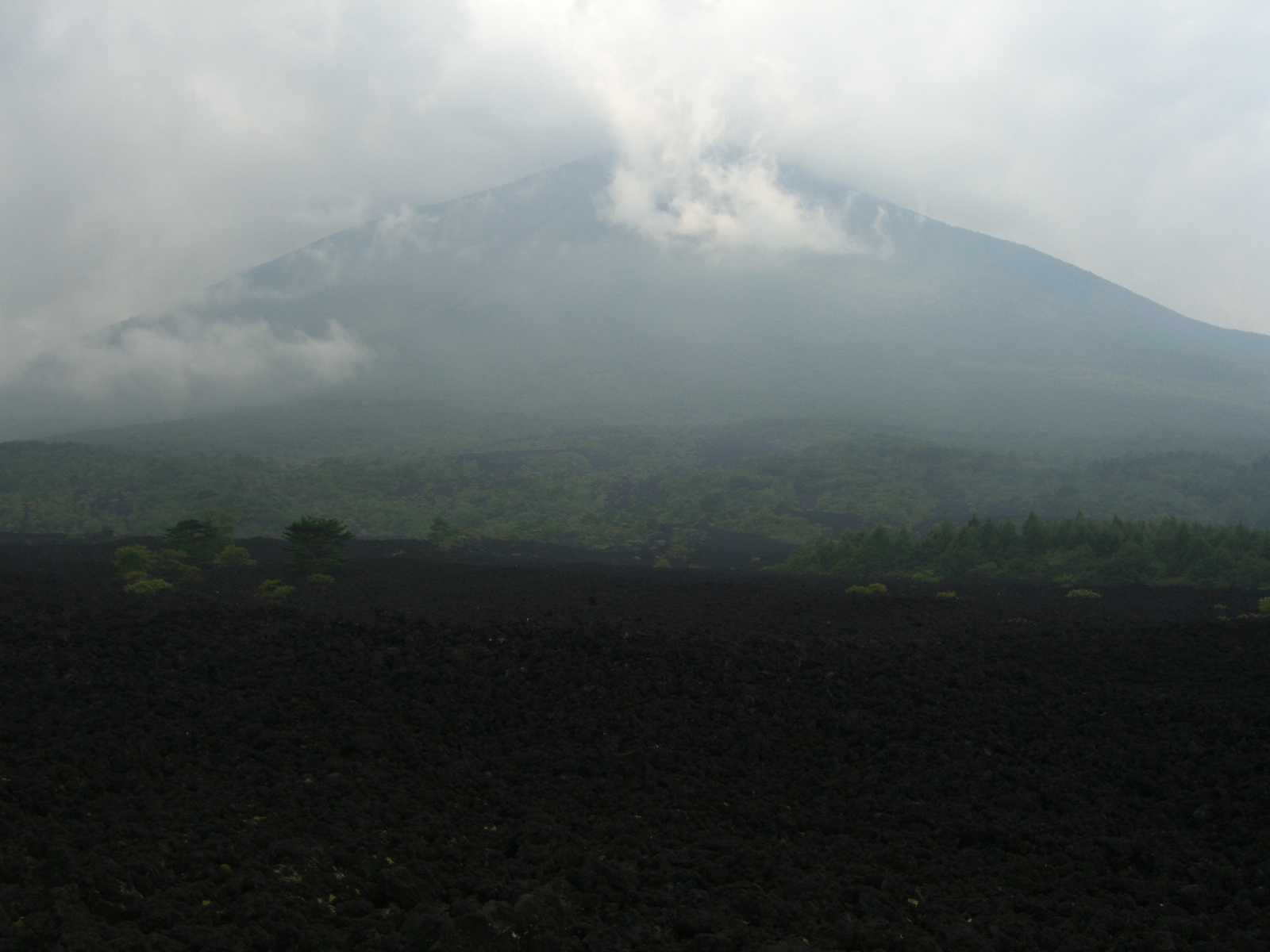 The Lava of Mount Iwate, Iwate Prefecture, Japan. One of Special Natural Monuments of the nation